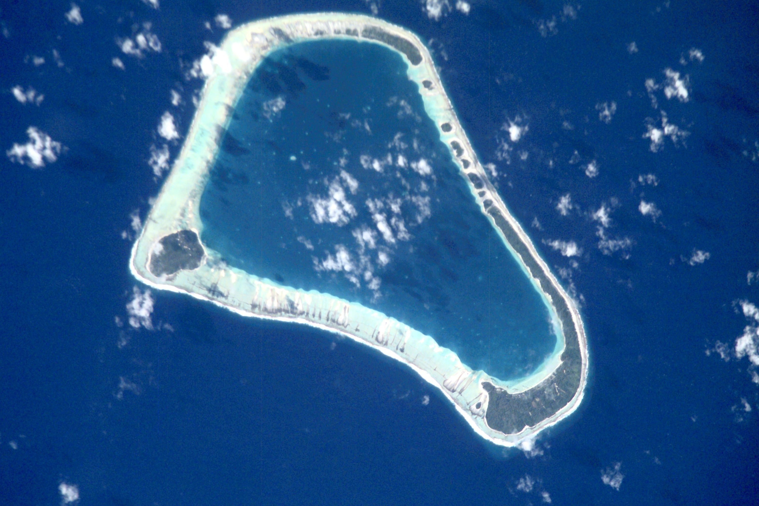 NASA astronaut image of Hereheretue (Tuamotu Archipelago, French Polynesia) in the Pacific Ocean